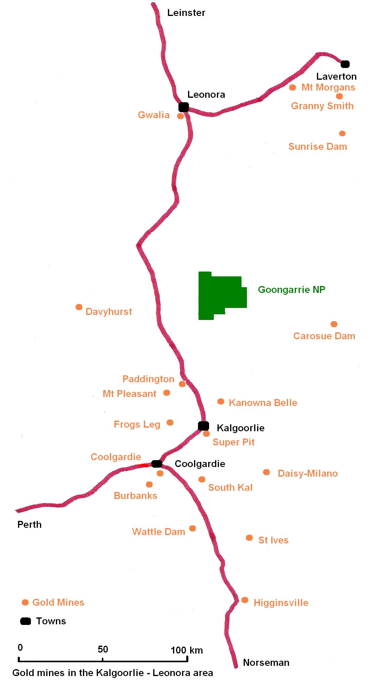 Map of gold mines in the Kalgoorlie - Leonora region of Western Australia